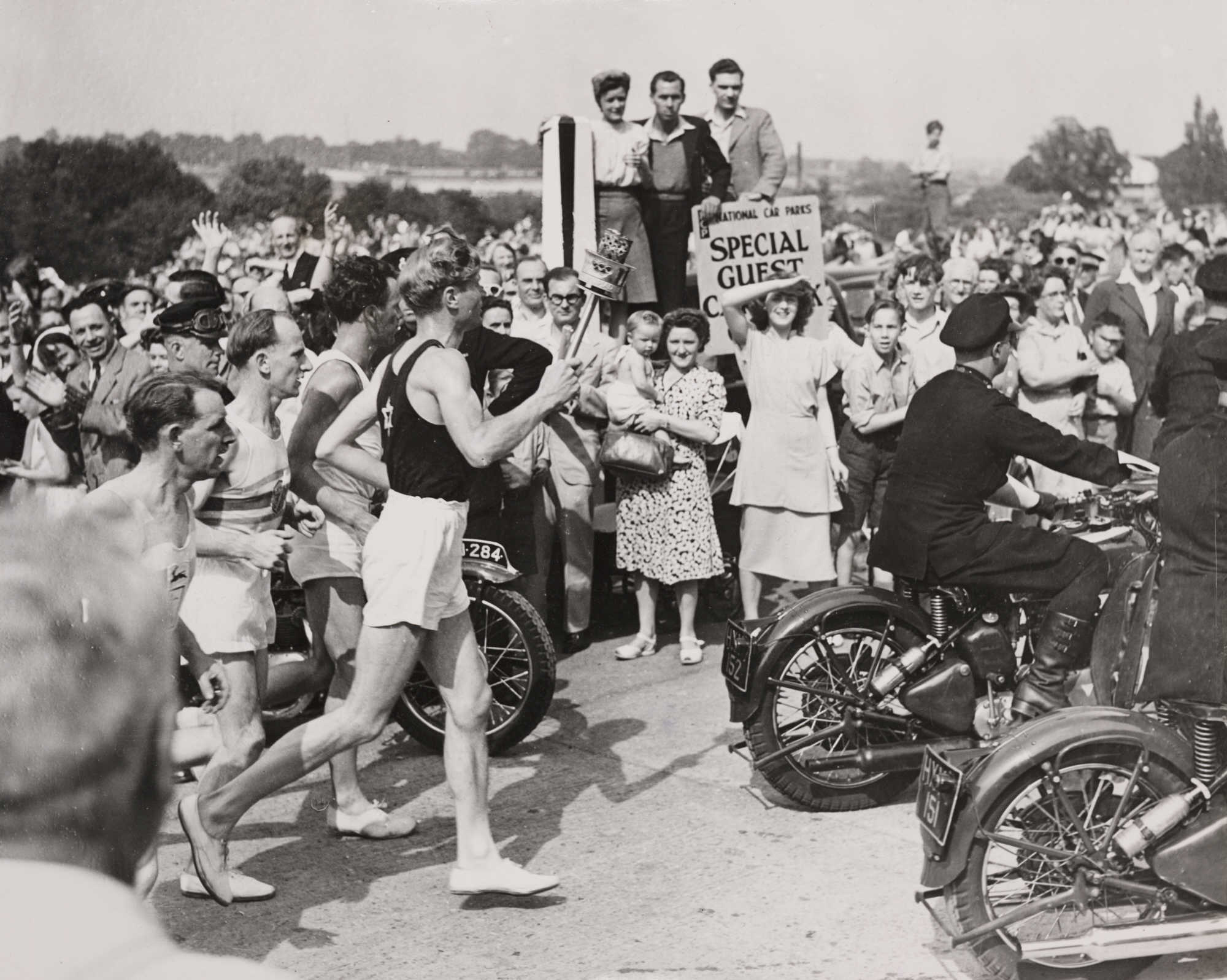 His Majesty King George VI opened proceedings with a speech which was then followed by the entrance of the Olympic torch bearer. Daily Herald Archive at the National Media Museum